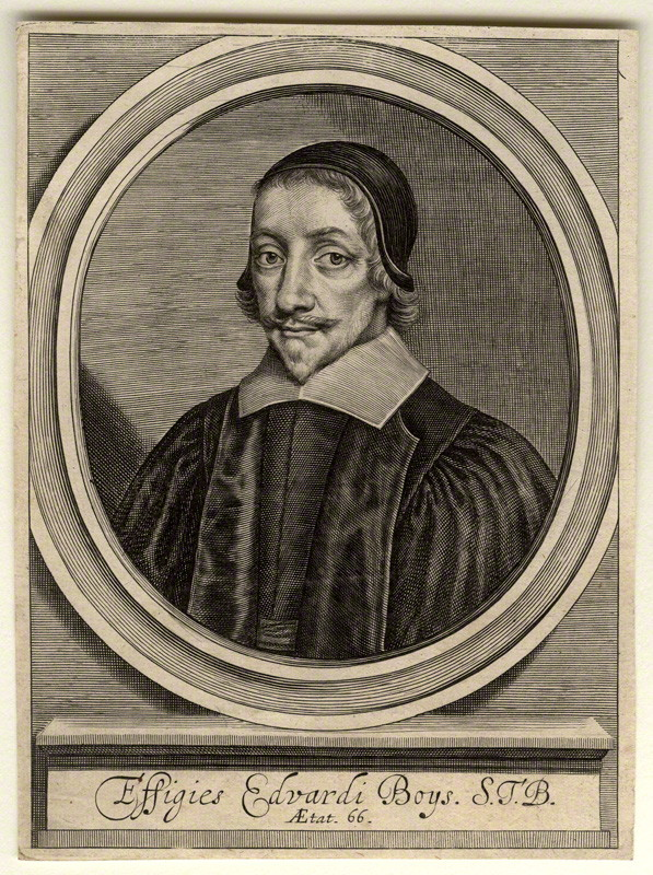 Portrait of Edward Boys (1599–1667), English Anglican priest.